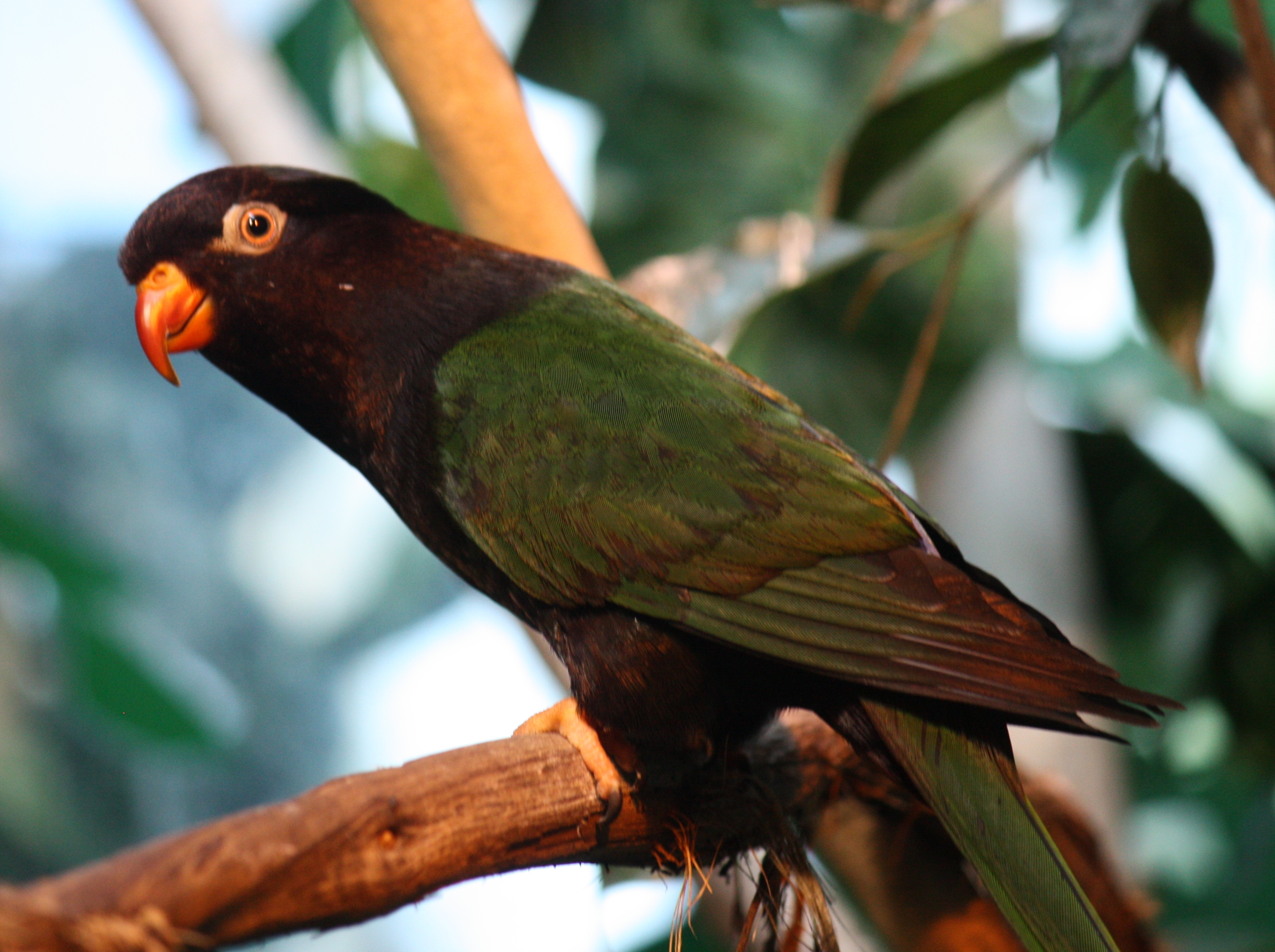 A melanistic phase Stella's Lorikeet Charmosyna papou goliathina at Louisville Zoo